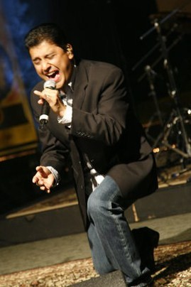 Juan Carlos Alvarado in a live performance along with other famous Christian artists